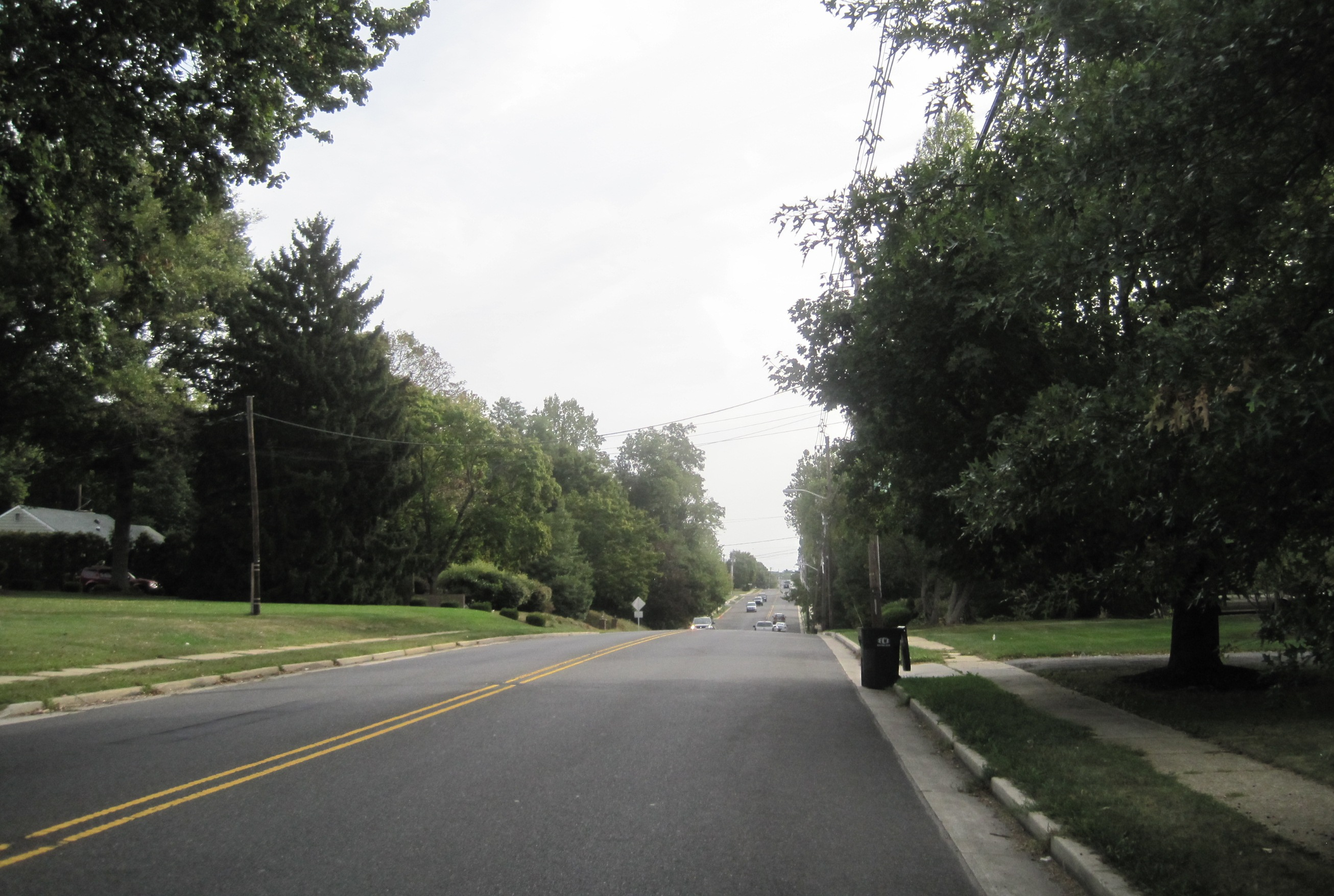 Photo of West Freehold, New Jersey, a census designated place within Freehold Township, this specific area of the CDP is also known as Stonehurst East. Photo taken along eastbound Schneck Road.